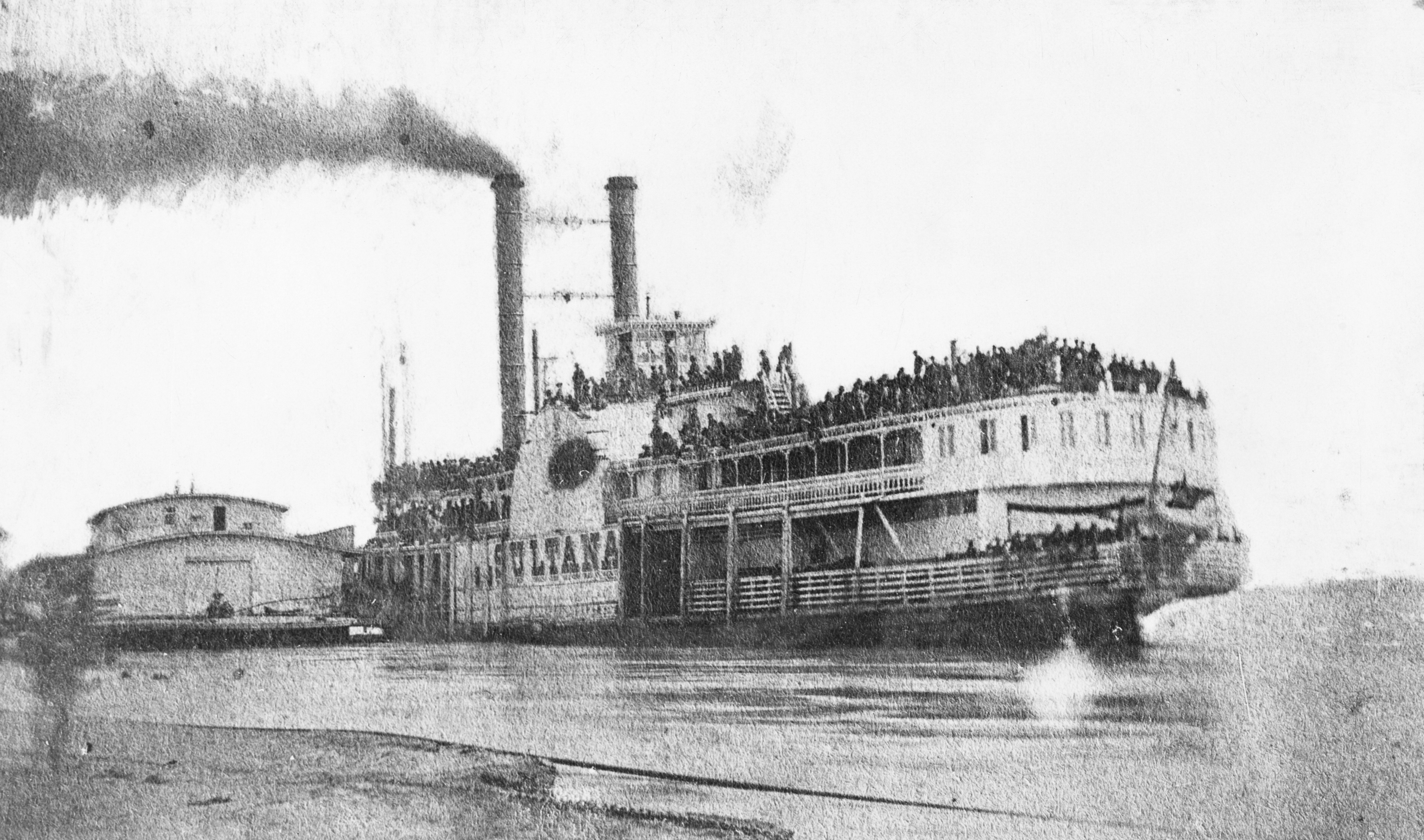 Ill-fated "Sultana", Helena, Arkansas, just prior to its explosion on April 27, 1865. The photograph is very grainy. The Library printed this image from a glass copy negative (now broken), which is a copy of a photo from unidentified source. (b&w film copy neg.)